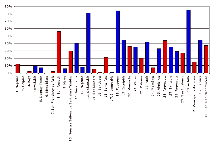 Allied percentage of casualties by ship at the Battle of Trafalgar 21 October 1805. Data for this chart are in Trafalgar order of battle and casualties. Blue = French (the two ships that took no casualties were both French.) Red = Spanish The number is the order in the line.